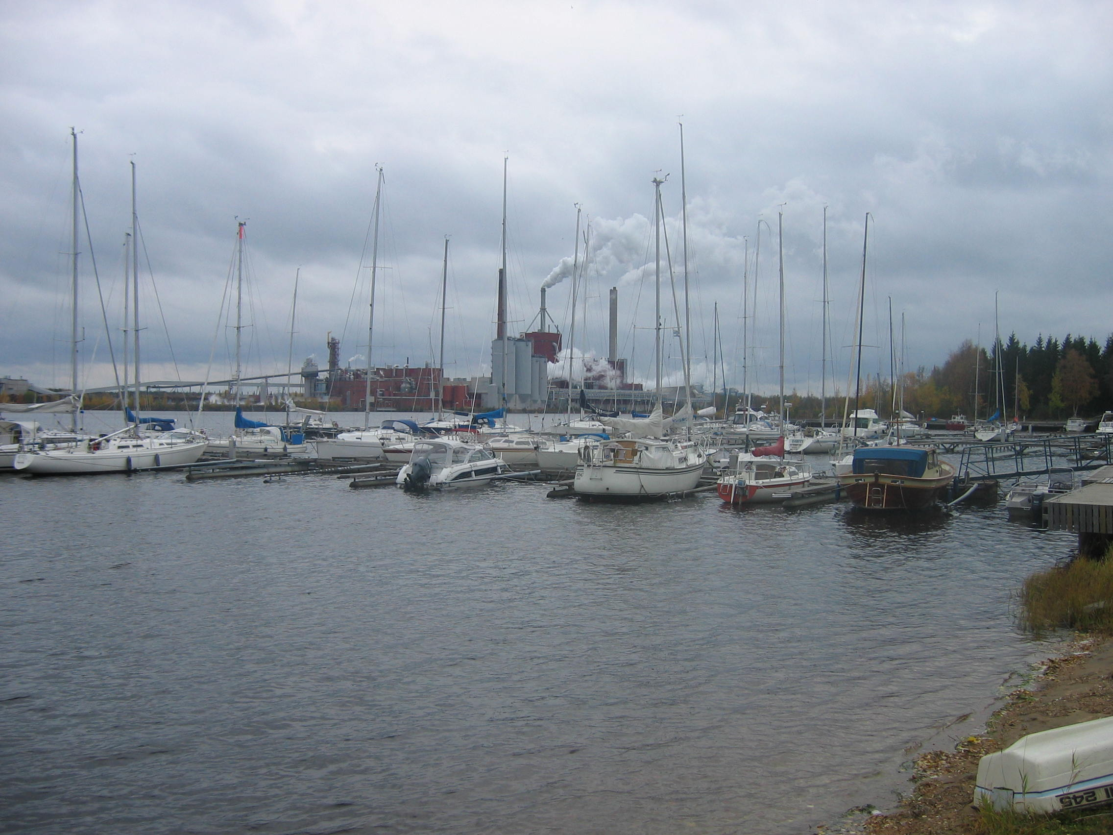 A small boat harbour in Hietasaari, Oulu, Finland. Stora Enso mills in the background.